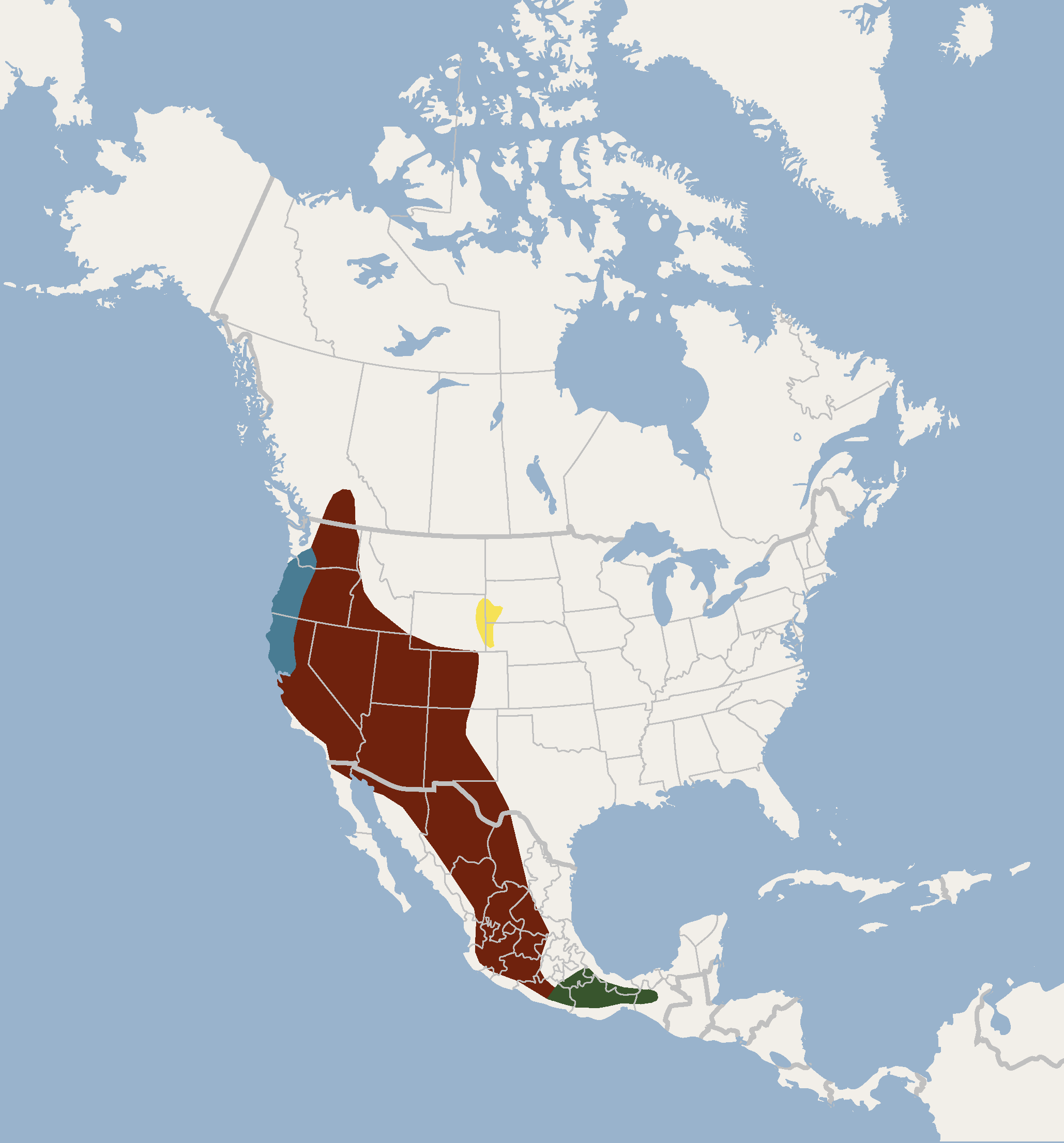 Geographical distribution of Myotis thysanodes according to Kays & Wilson, 2009